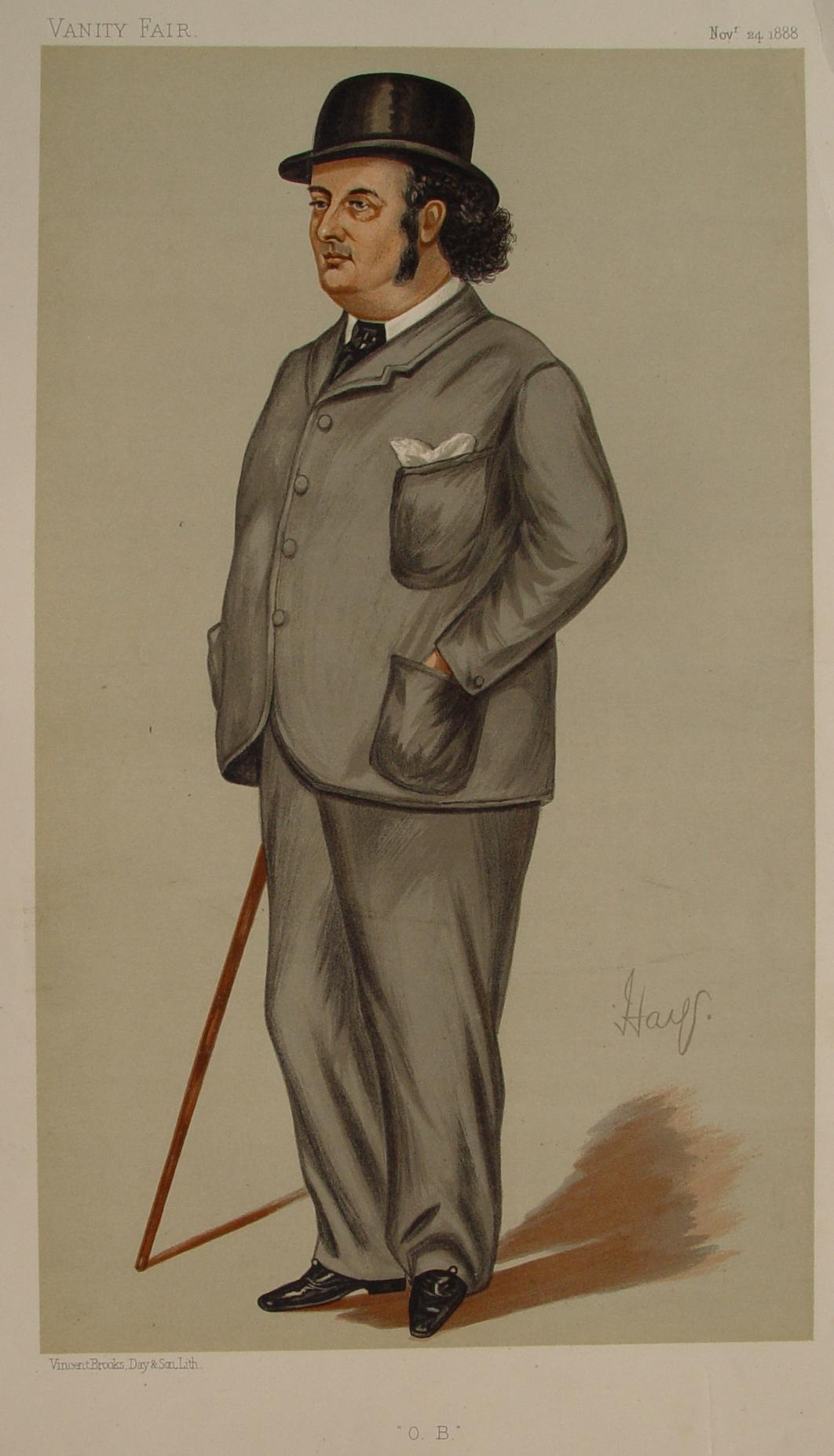 Caricature of Oscar Browning (1837-1923).